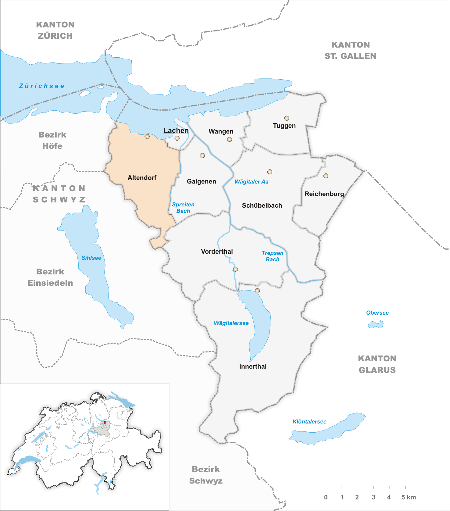 Municipality Altendorf